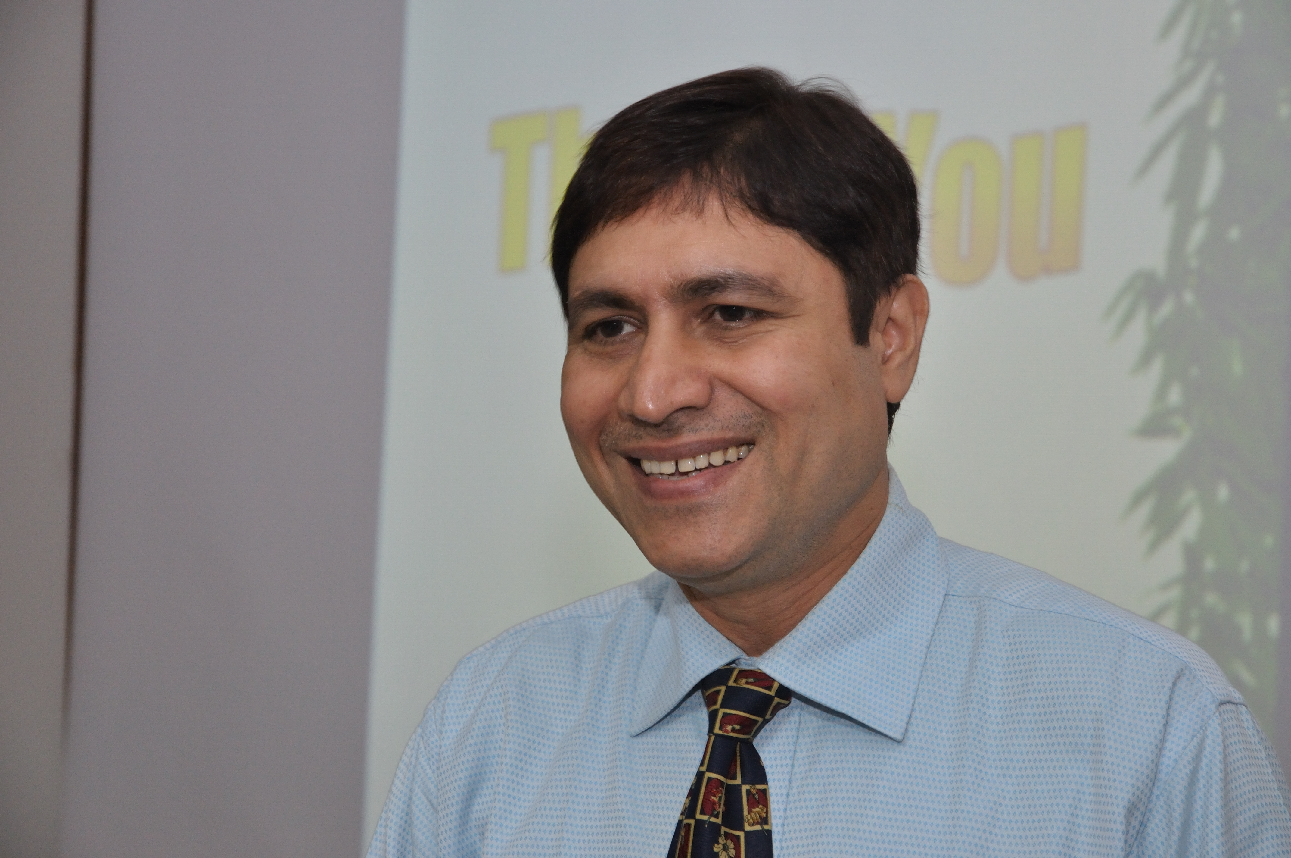 Professor Abhijit Chakraborty is Associated Professor of Eastern Institute for Integrated Learning in Management, Kolkata.